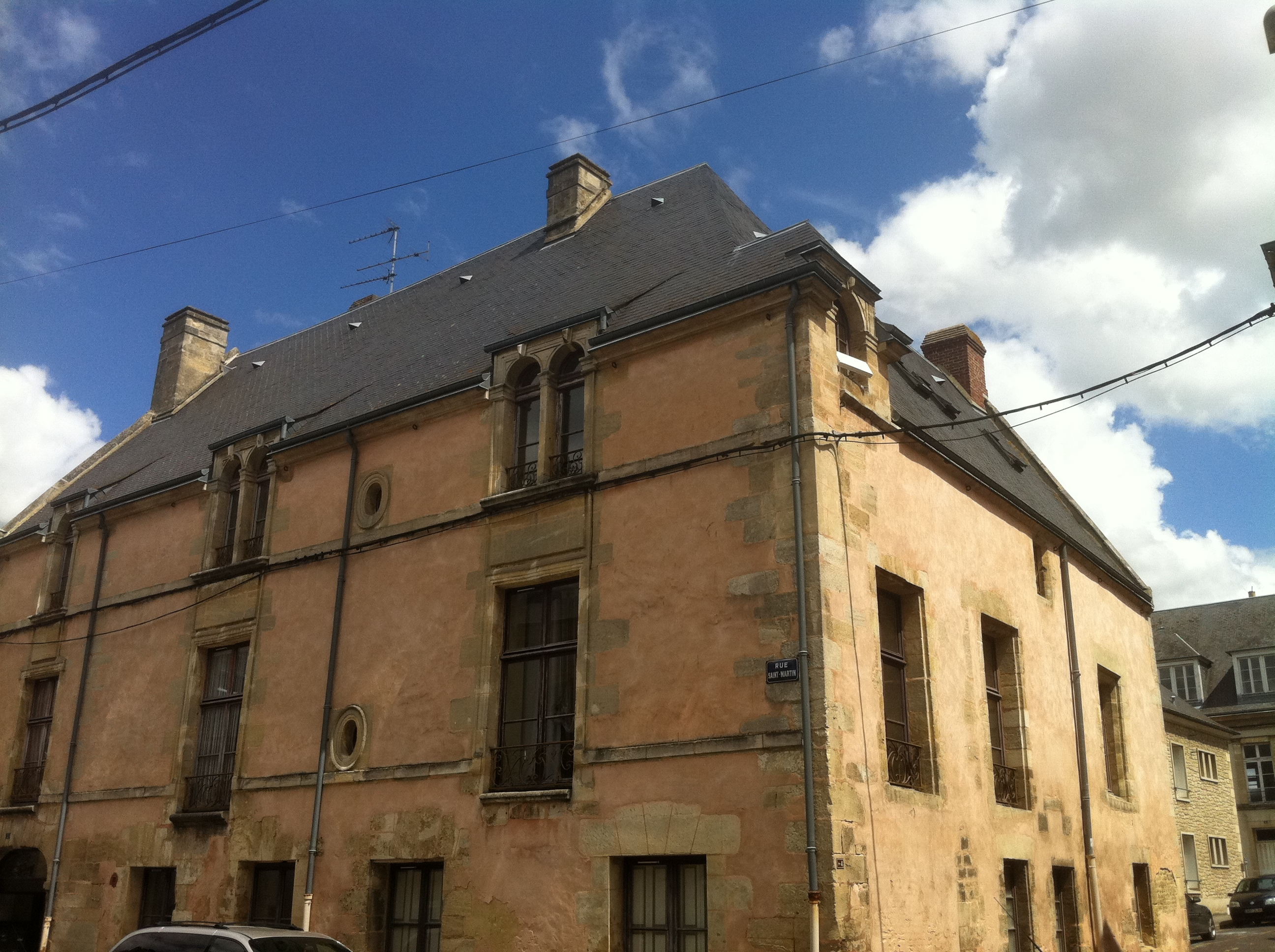 Hôtel du Moulin de Tercey, 2 rue Saint-Martin, 3 story hotel particulier in Argentan, Venisian details on windows